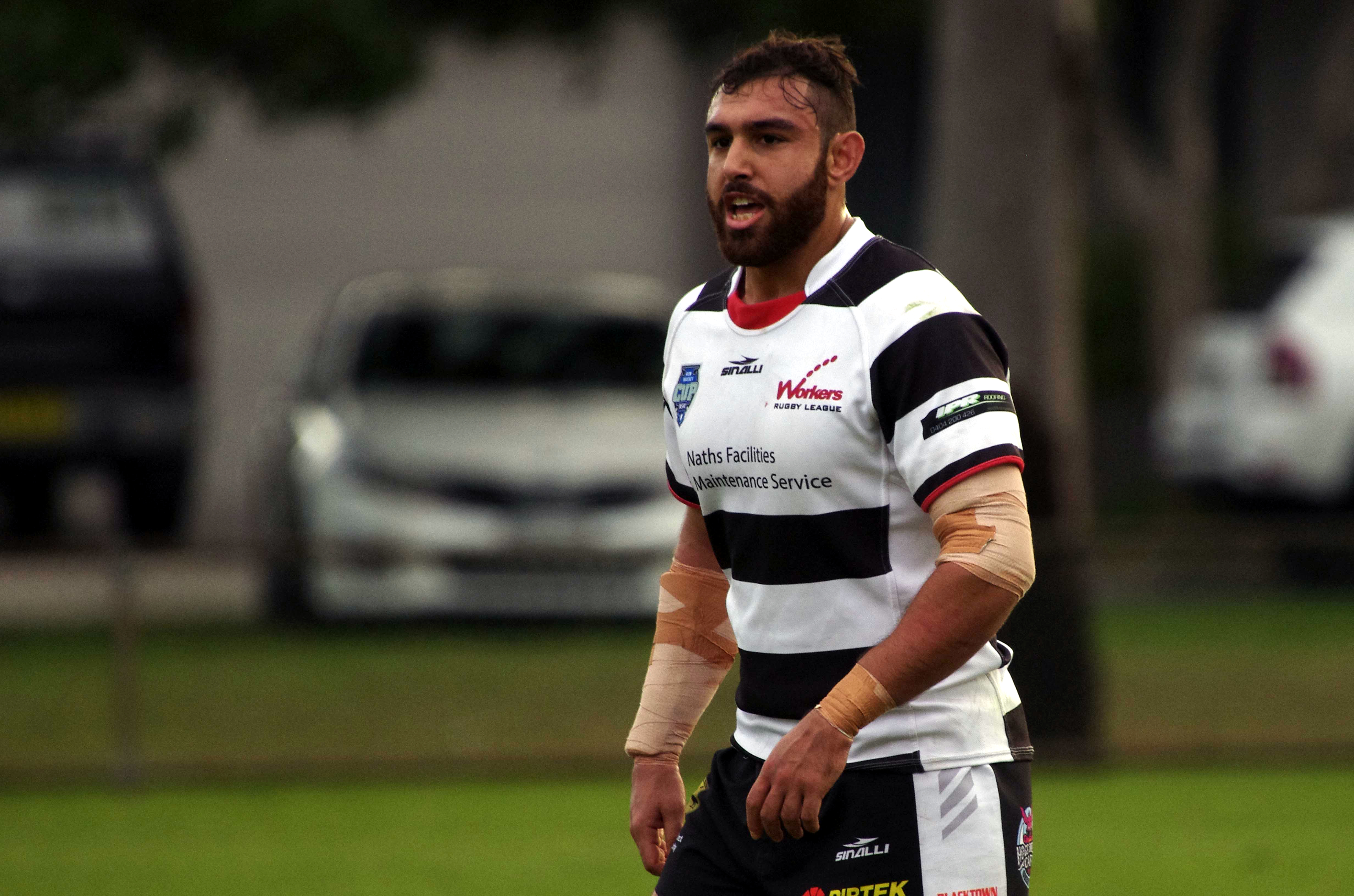 Jad Mahmoud